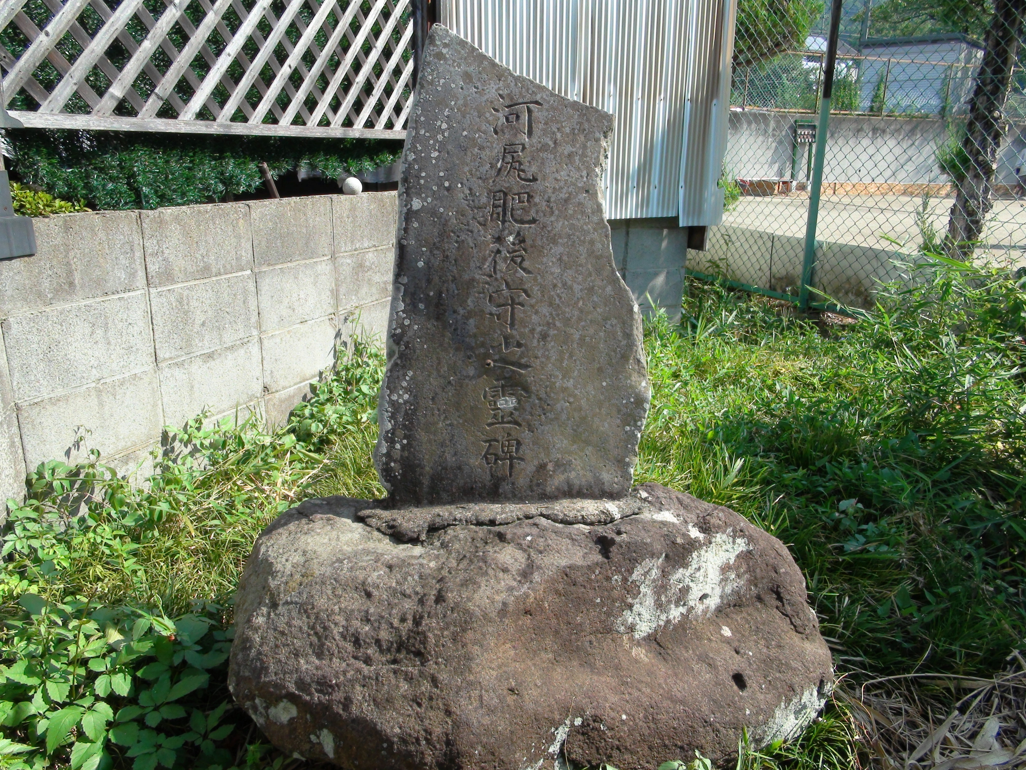 Kawajiri-Hidetaka's tomb in Kofu city